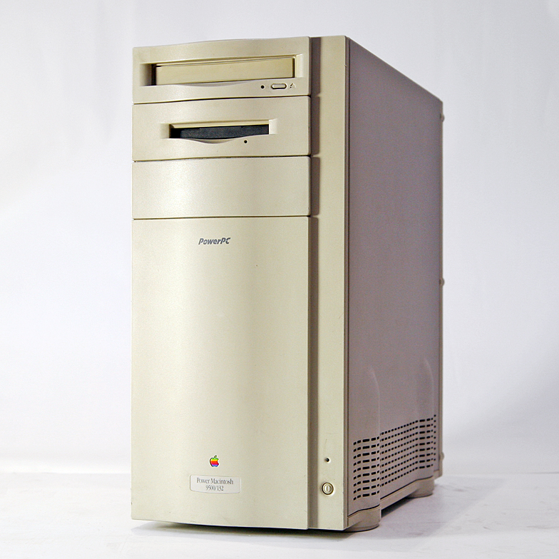 Front view of an Apple PowerMac 9500/132 from 1995